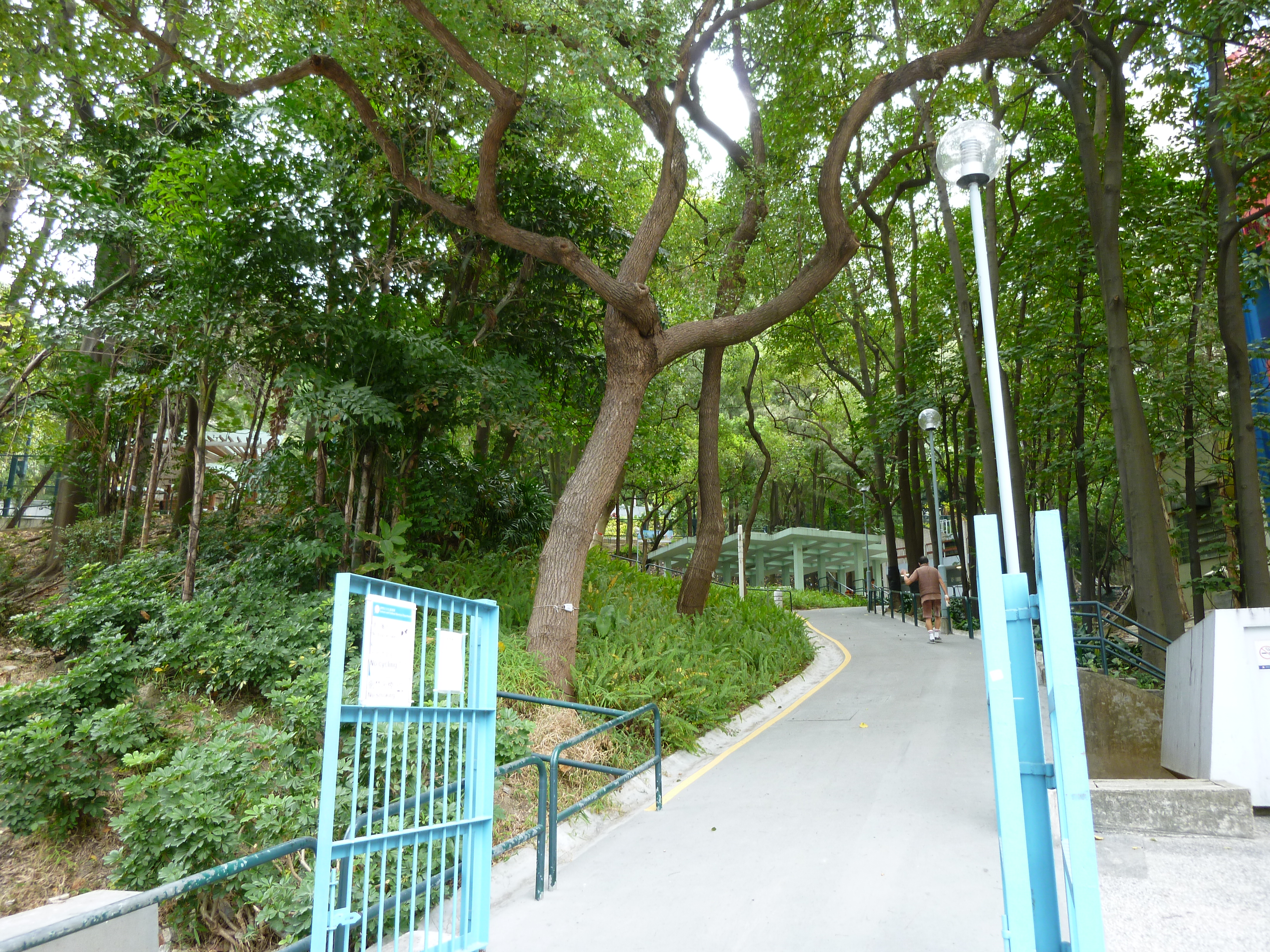 Central Kwai Chung Park (Kwai Chung, Hong Kong)